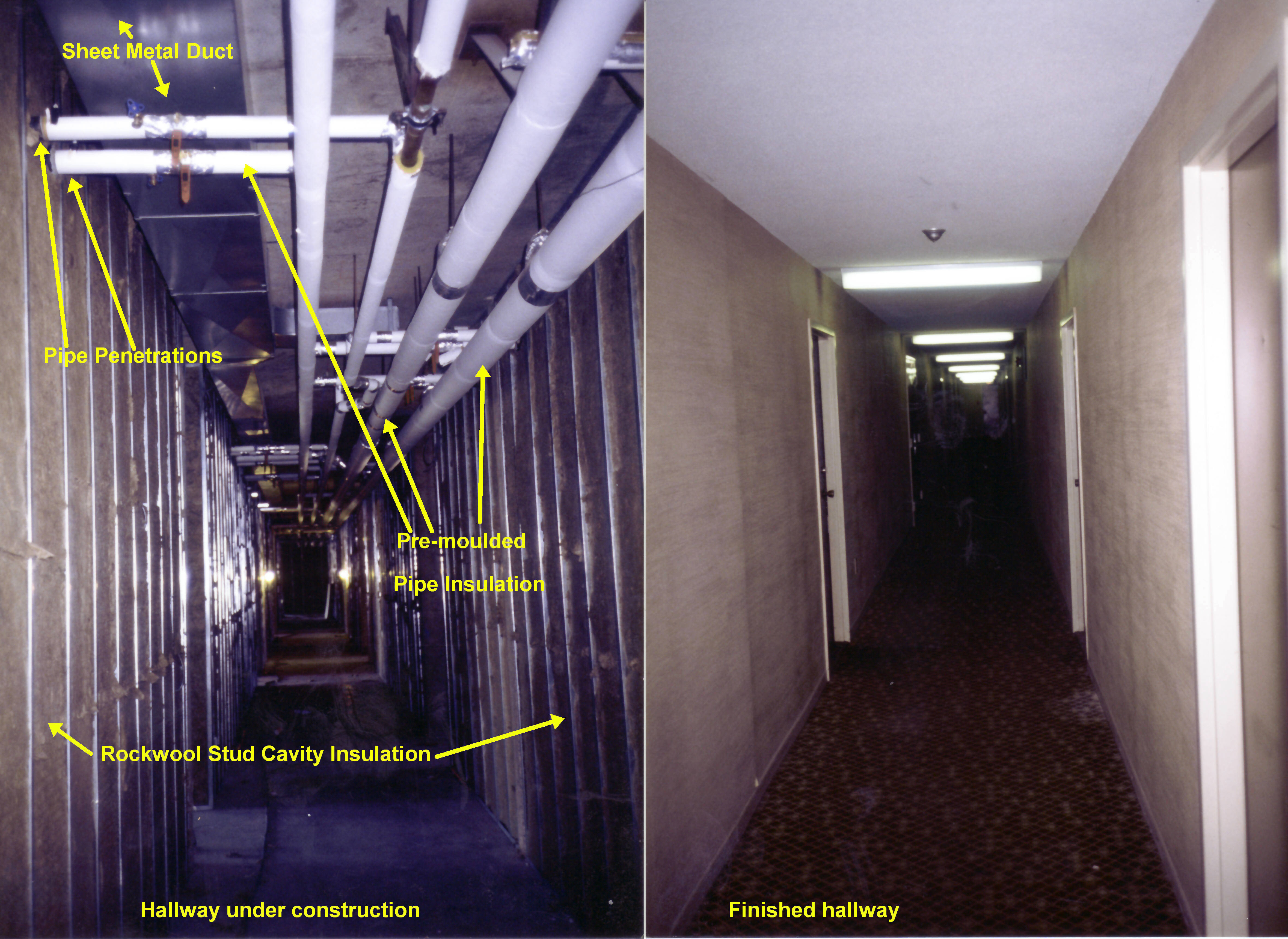 Common building insulations inside an apartment building in Mississauga, Ontario, Canada.